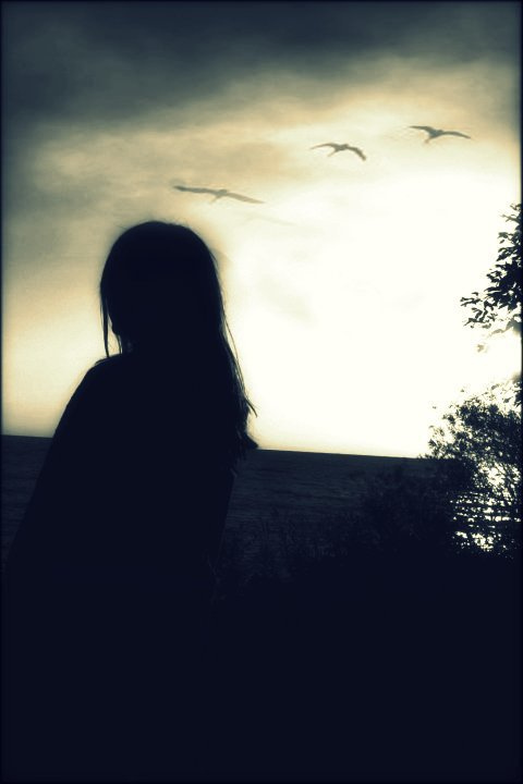 A Silhouette of Sadness